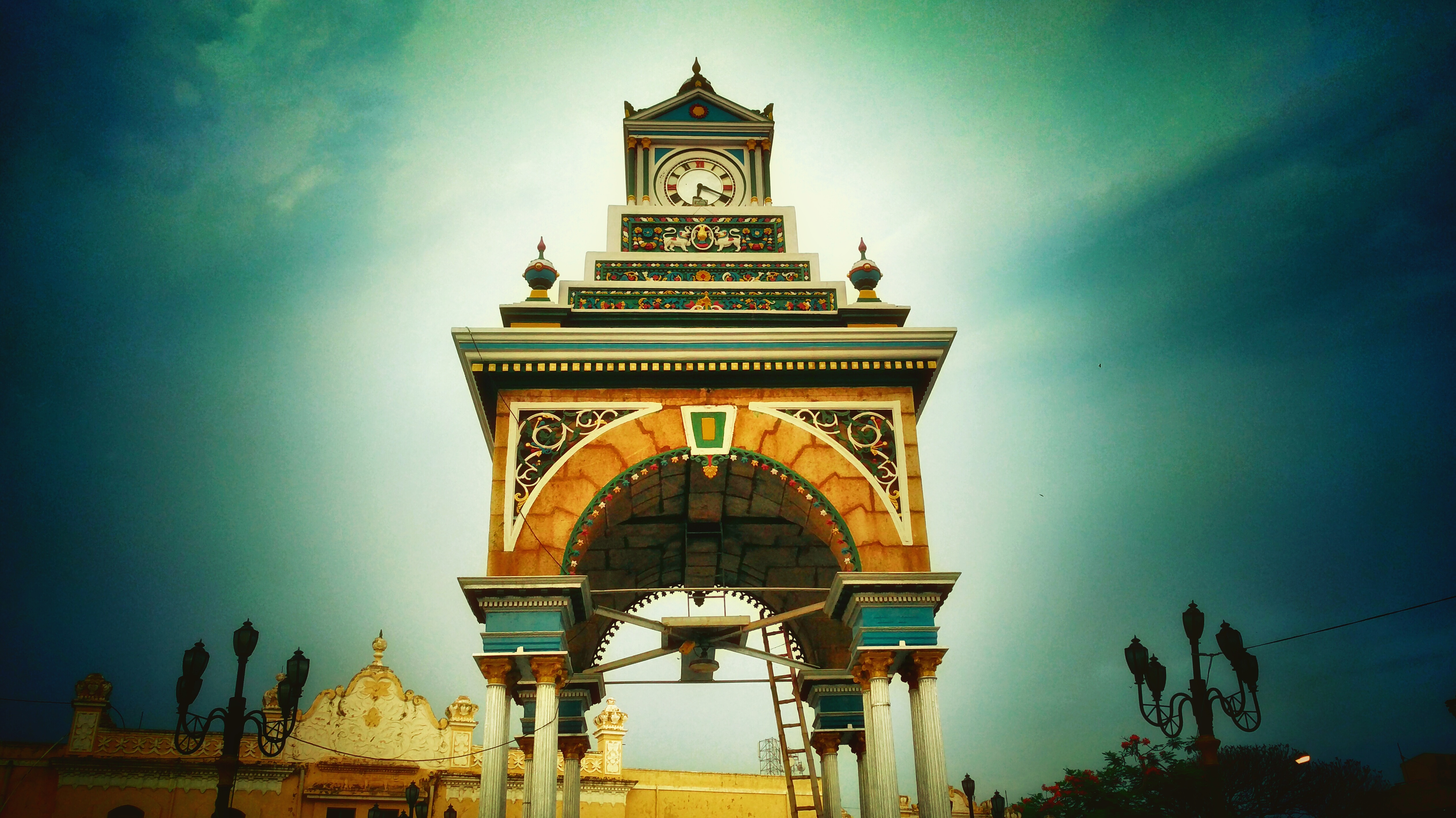 Small clock tower (chikka gadiyarada kamba). Placed in heart of the city of Mysore. Mysore is known for its heritage. This tower was constructed on the time of British. Till now it is known as chikka gadiyarada kamba circle.